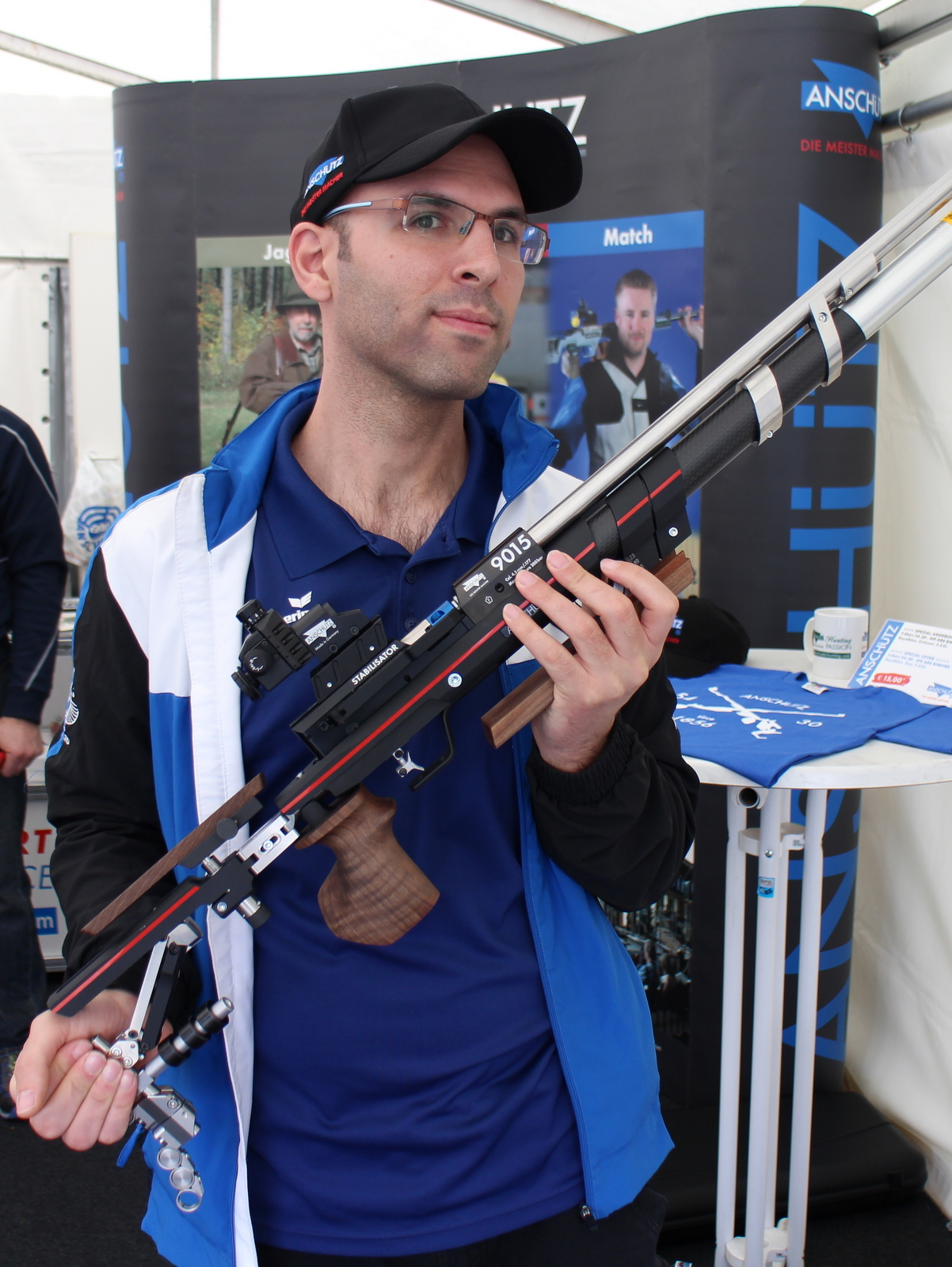 Gil Simkovitch in the Anschutz booth during Munich ISSF world cup 2015